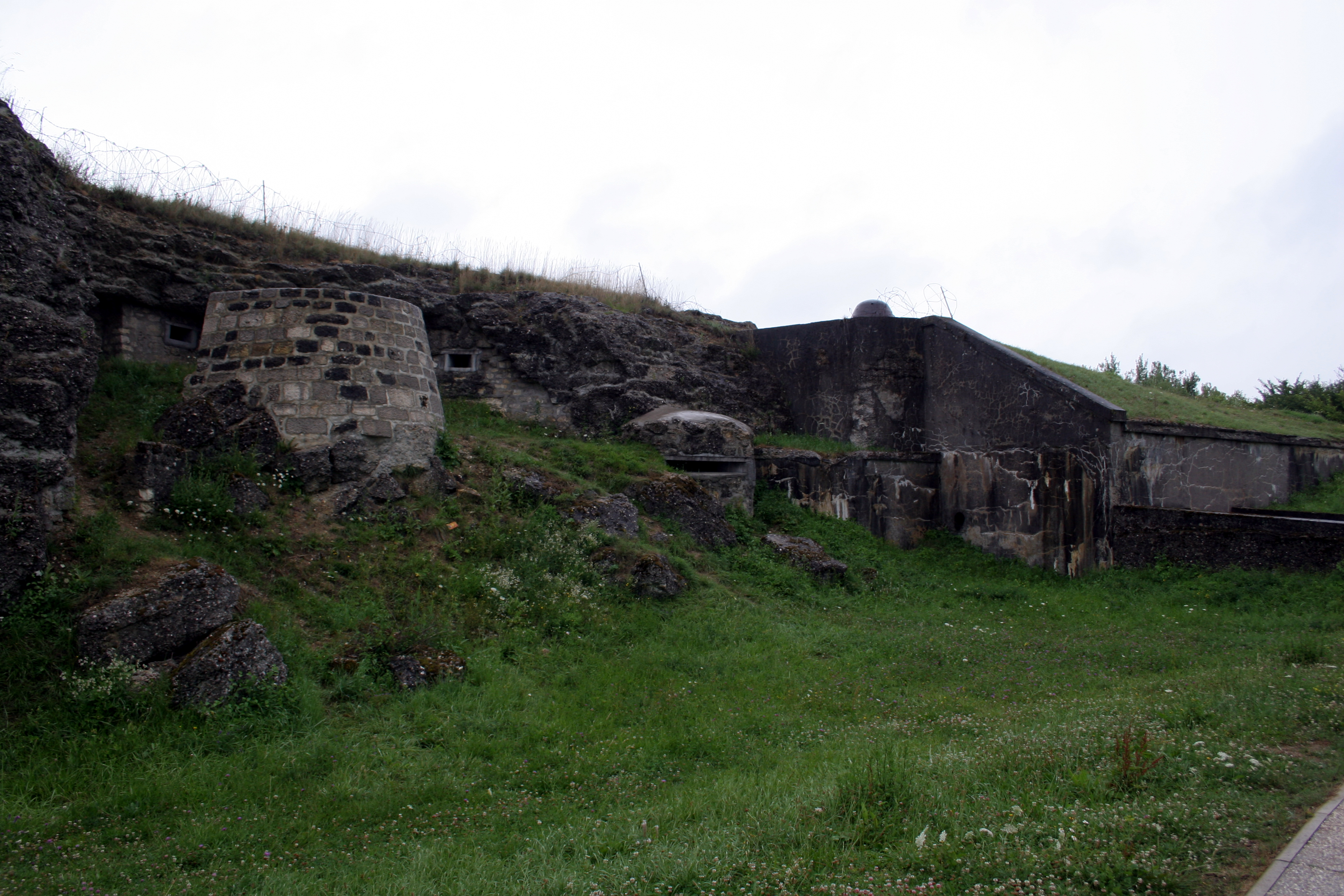 Fort Douaumont near Verdun, France in July 2005.